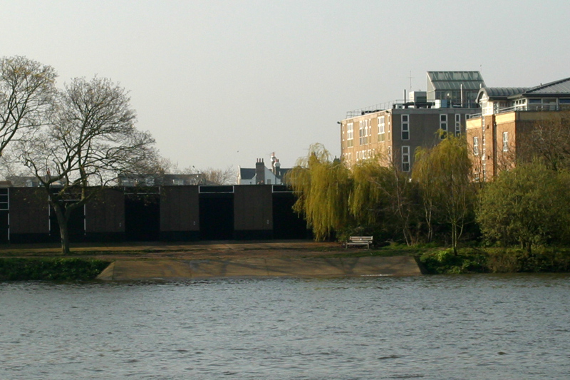 St Paul's School, London Category:Images of the Boat Race